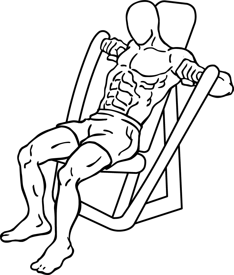 an exercise of chests